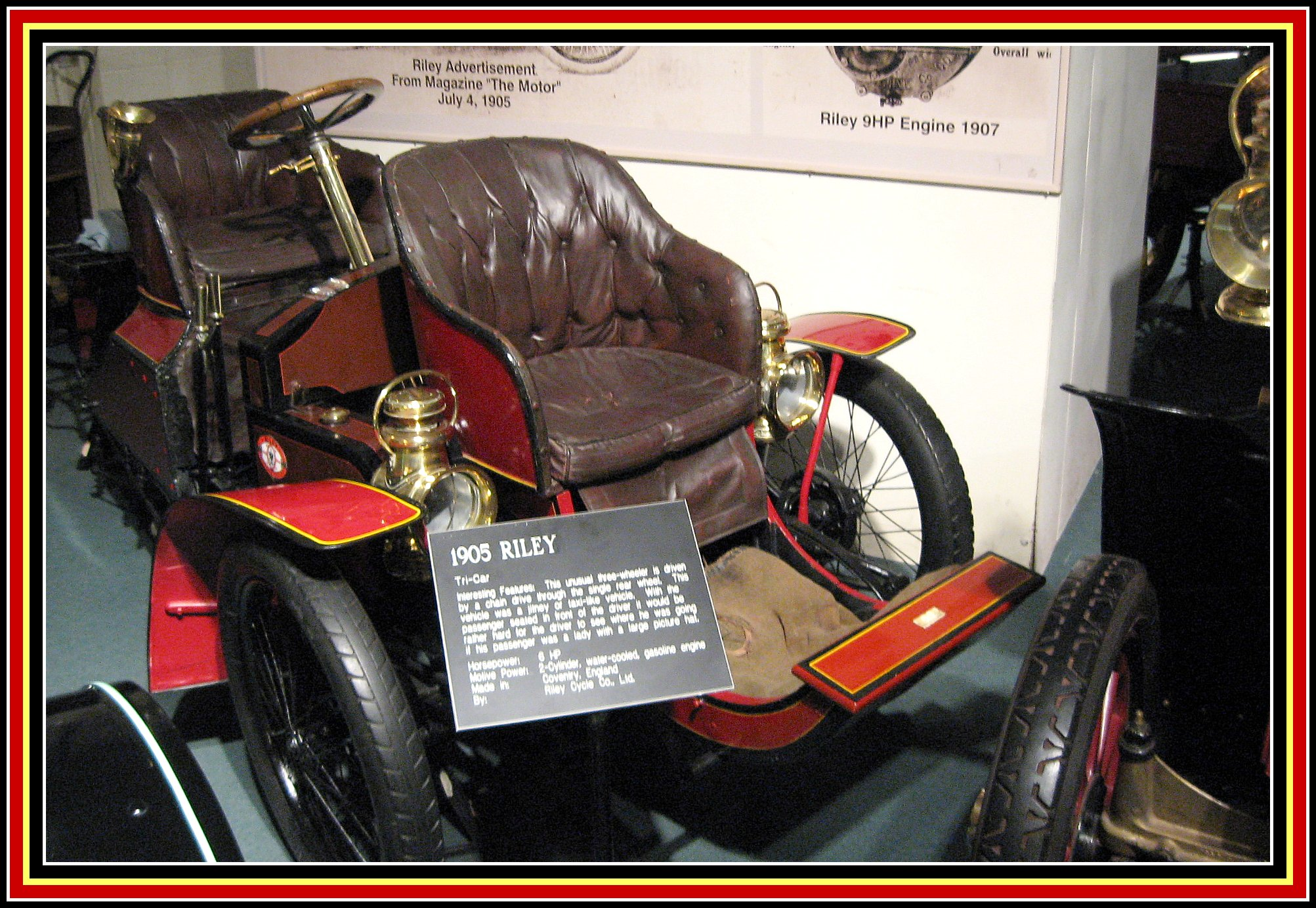 Riley Tricar 1905 This unusual three-wheeler is driven by a chain drive through the single rear wheel. This vehicle was a jitney or taxi-like vehicle. Horsepower: 6 HP Motive Power: 2-Cylinder, Water Cooled, Gasoline Engine. Made In: Coventry England Made By: Riley Cycle Company, Ltd.